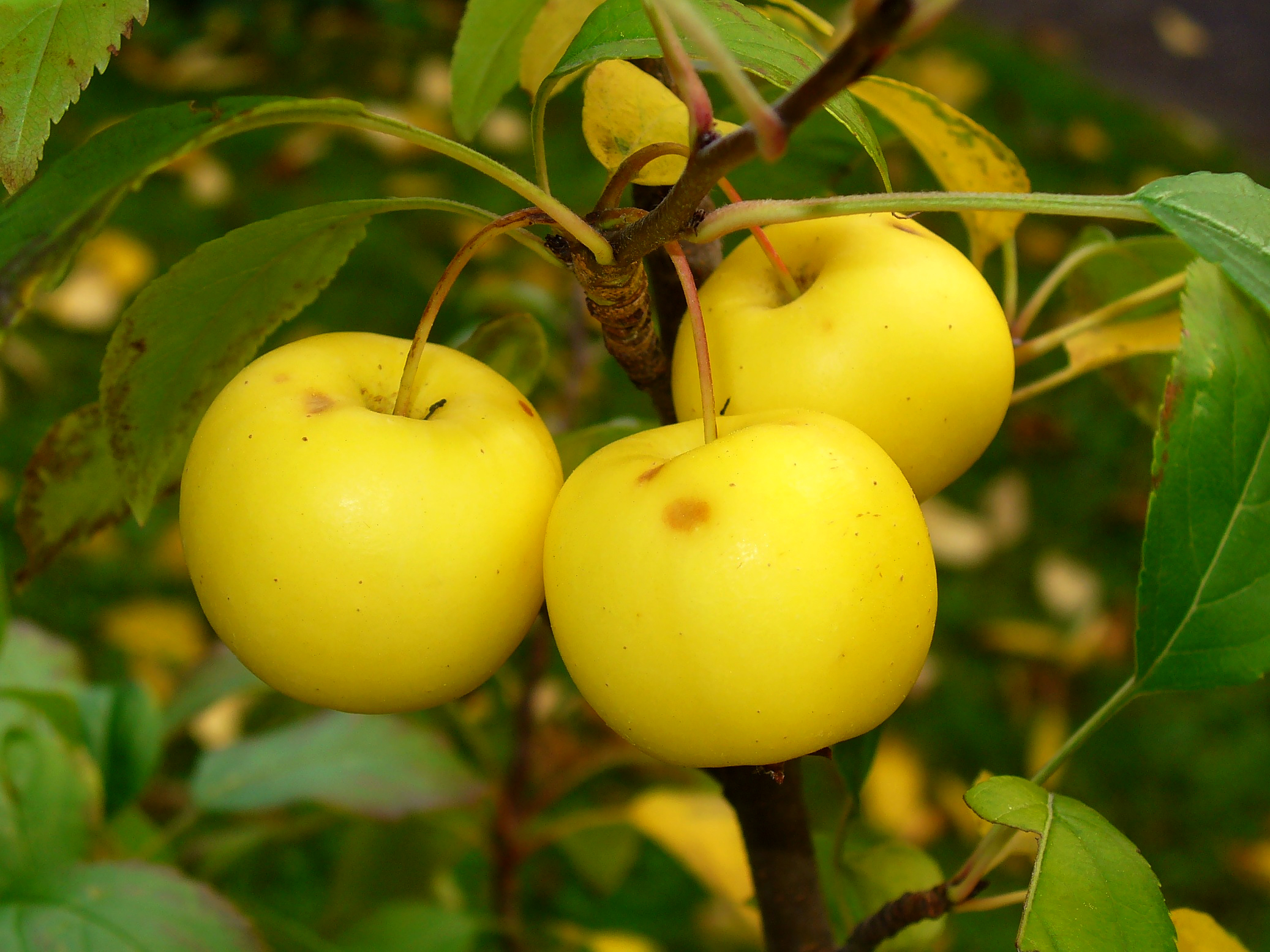 Malus sylvestris, Rosaceae, European Wild Apple, fruits; Botanical Garden KIT, Karlsruhe, Germany.